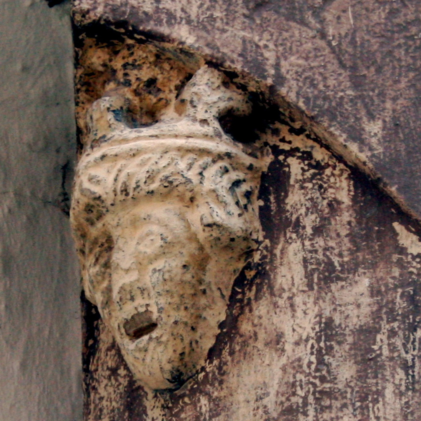 Town Hall in Eisleben: Detail Hermann von Salm